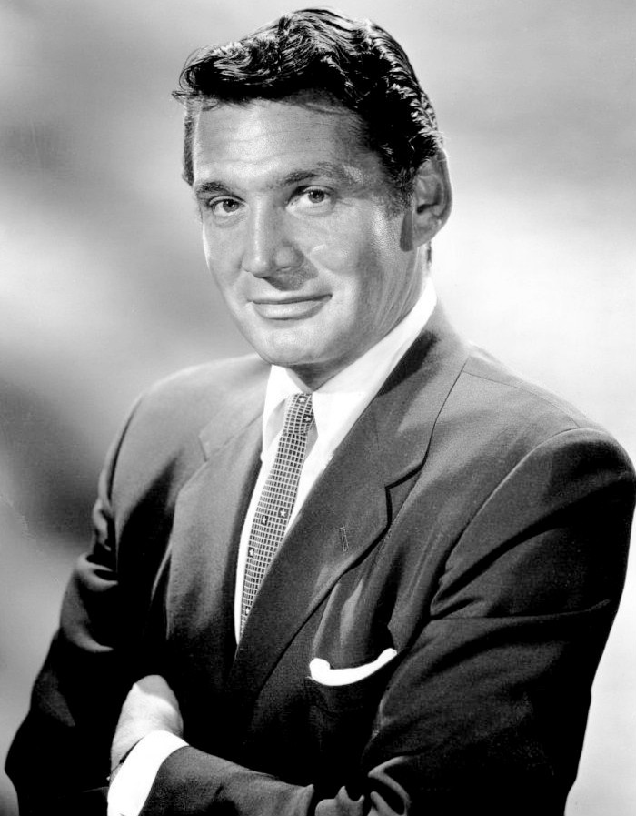 Photo of actor Gene Barry.